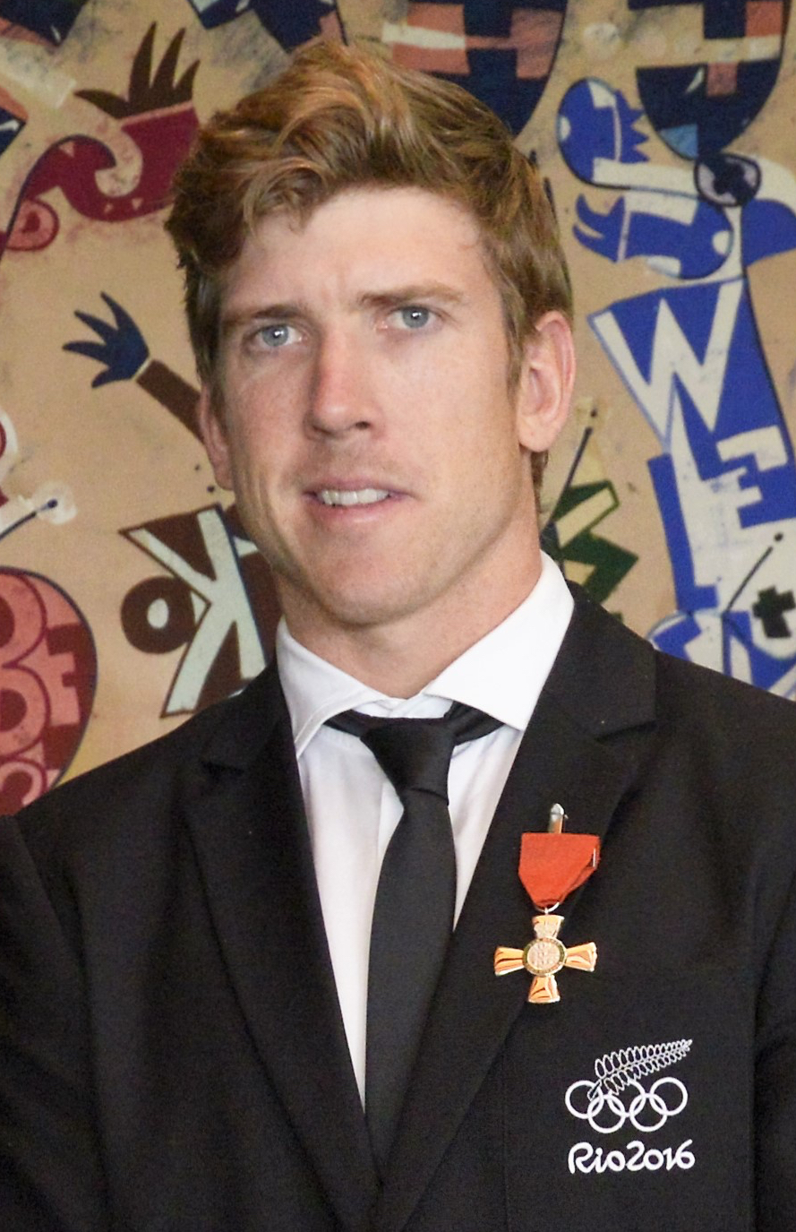 Peter Burling, after his investiture as MNZM, for services to sailing, on 10 October 2018.